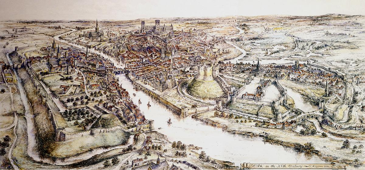 A panoramic view of York in the 15th century. A watercolour by E. Ridsdale Tate produced in 1914, the earliest publication I have found it in is Edwin Benson's 1920 volume "Life in a Mediæval City", published in London. A basic online copyright check shows no subsequent copyright extensions in the UK or US.